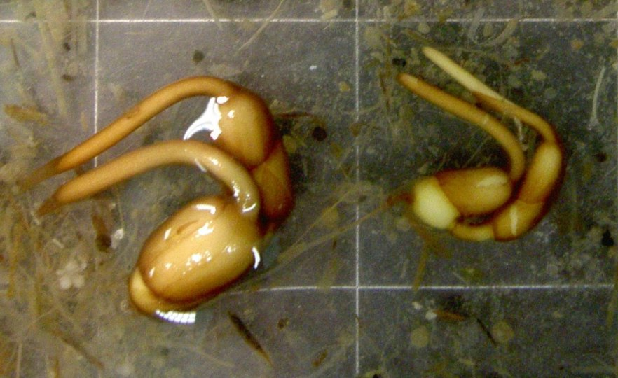 The accepted name for Potamogeton pectinatus L., Sp. Pl.: 127 (1753) is Stuckenia pectinata (L.) Börner, Fl. Deut. Volk.: 713 (1912).